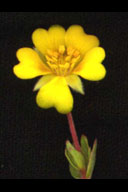 Potentilla hickmanii —Hickman's potentilla. Endemic to 2 populations in the Coastal sage and chaparral habitat on the coast in San Mateo and Monterey Counties of California.